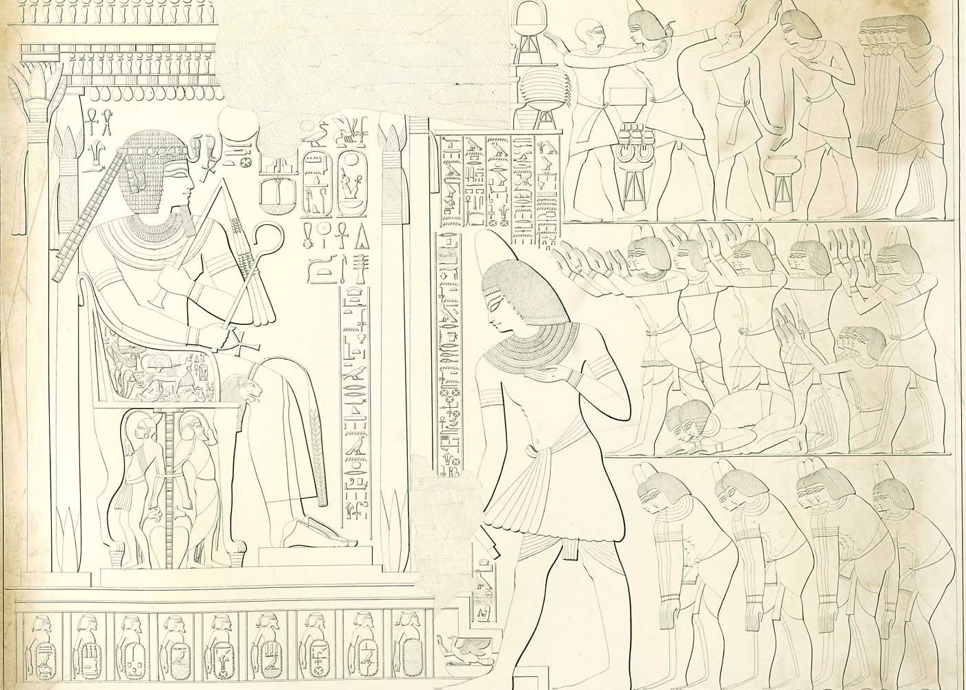 Scene from the Theban tomb of Khaemhat, TT57